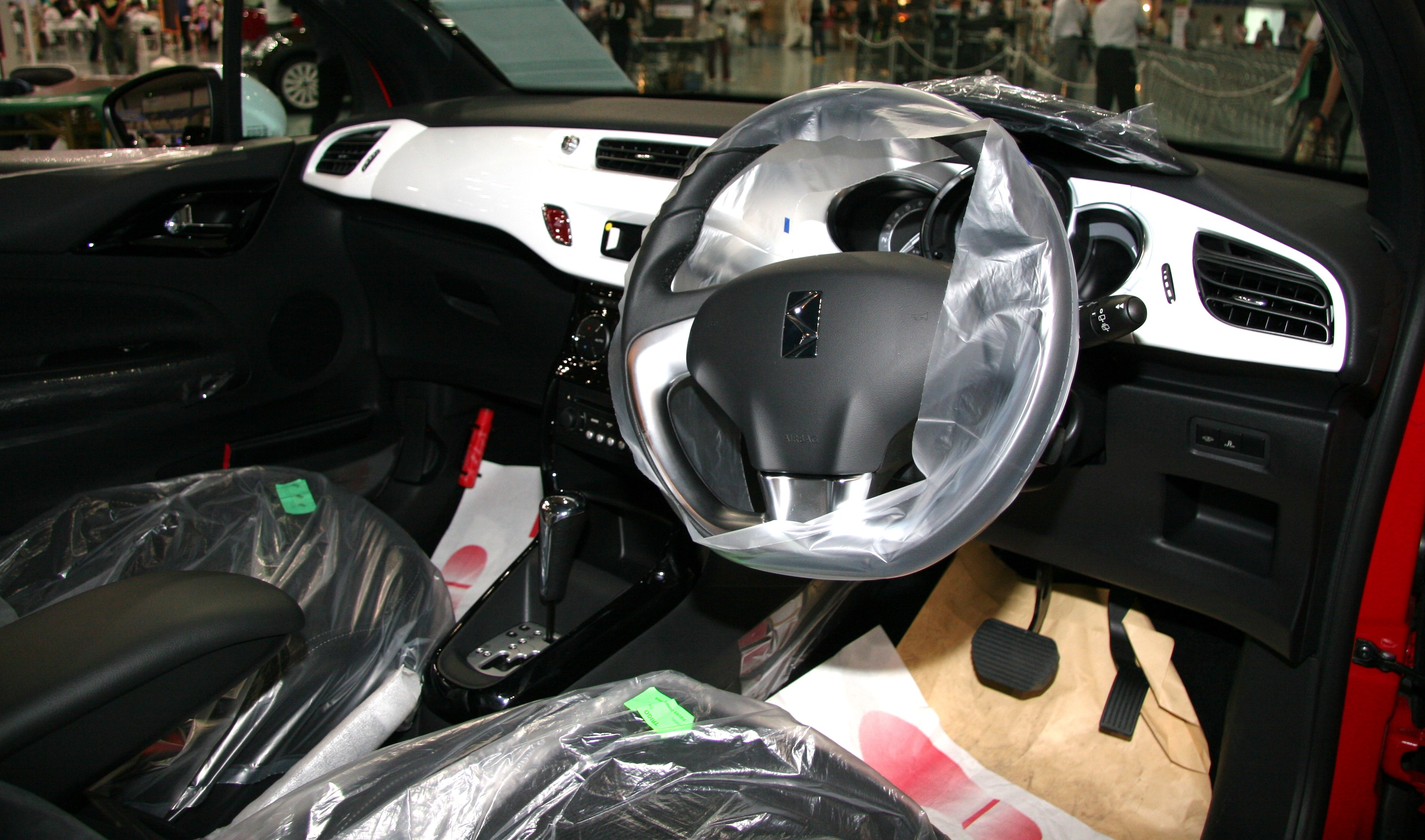 Citroën DS3